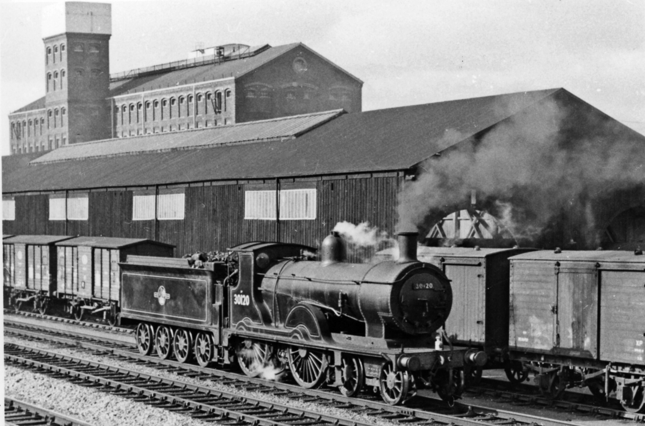 SR 4-4-0 at Didcot. View northward across the ex-GWR London - Reading - Swindon etc. main line just west of the station at Didcot. A relatively unusual sight: ex-LSW Drummond class T9 4-4-0 No. 30120 (built 8/1899, withdrawn 7/63 and now preserved on the Bodmin & Wenford Railway) is passing the Goods yard before working the 15.38 stopping train to Southampton via Newbury and Winchester.